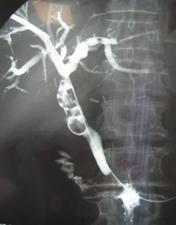 cholelithiasis